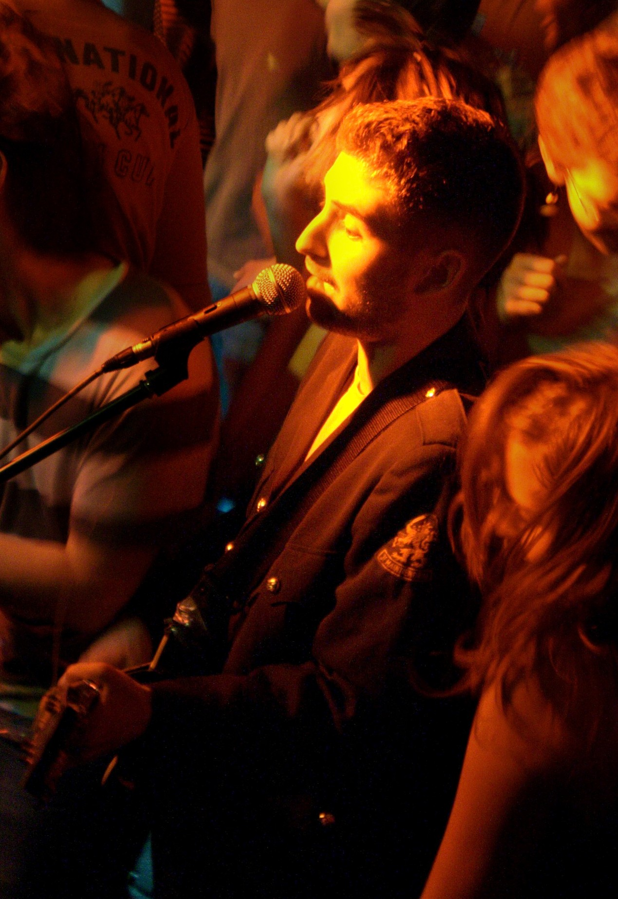 Borys Dejnarowicz, Polish singer-songwriter, performing with The Car Is on Fire in Poznań (Blue Note) on 1 June 2007